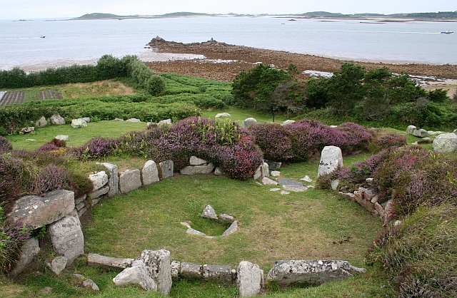 Iron Age House, Halangy Down, St. Mary's Part of settlement lasting 500 years - well into Romano British occupancy. The houses had hearths, stone-lined drains, stone benches, cupboards and partitions. The island of Creeb is linked to the main island by the rocky shingle forming Halangy Porth.